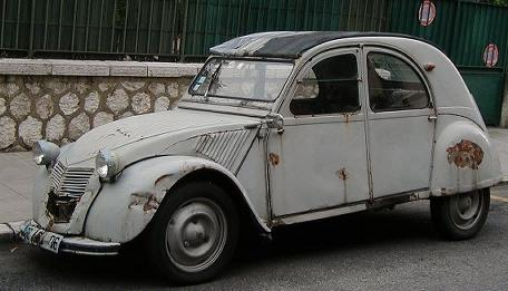 A 1960 2CV still running in 2003 (maybe not for long ;-) ), notice "suicide" doors.